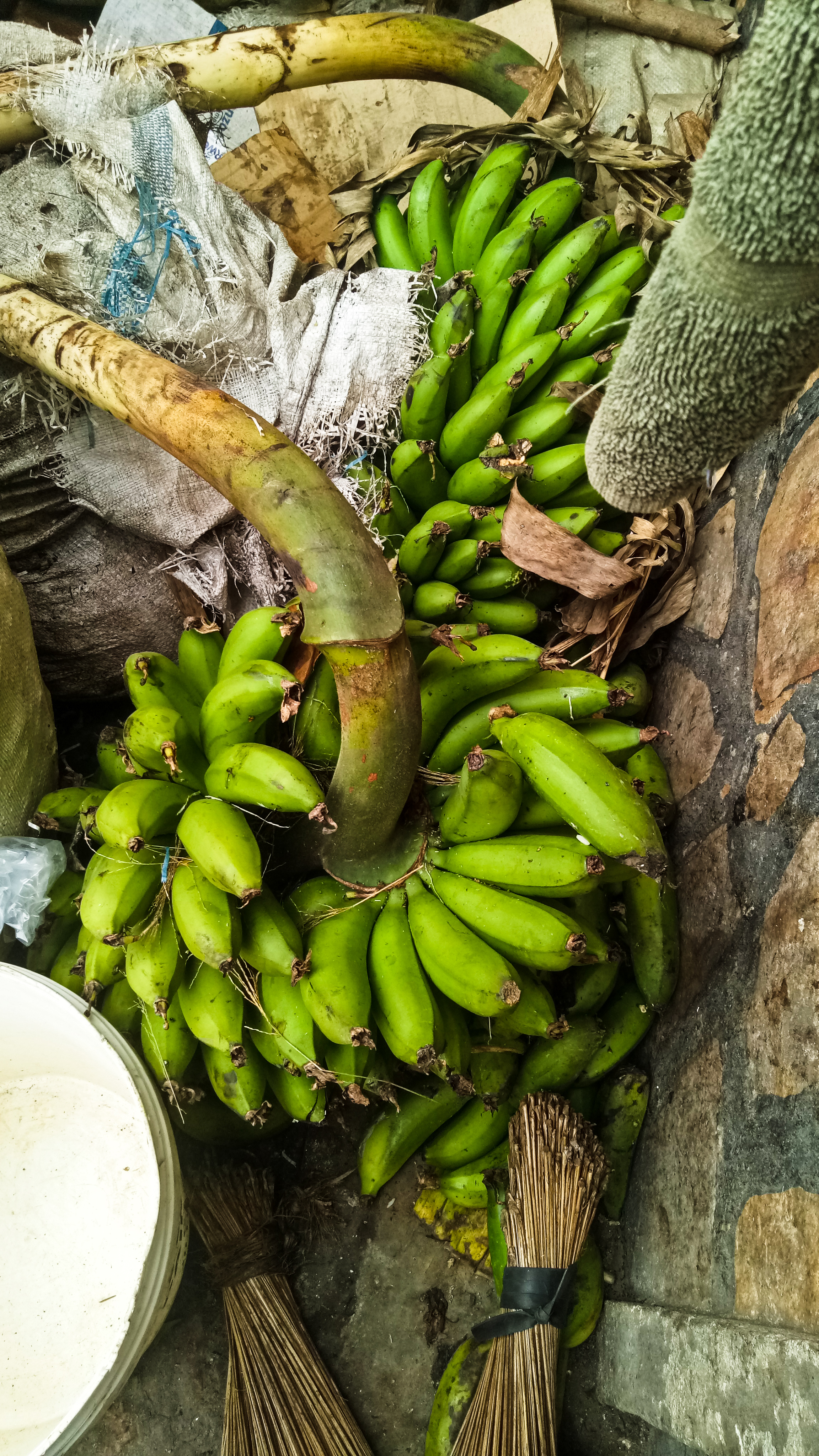 This is an image with the theme "Africa on the Move or Transport" from: Uganda